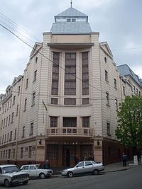 Палац "Академічний" (Чернівці) Буковинського державного медичного університету